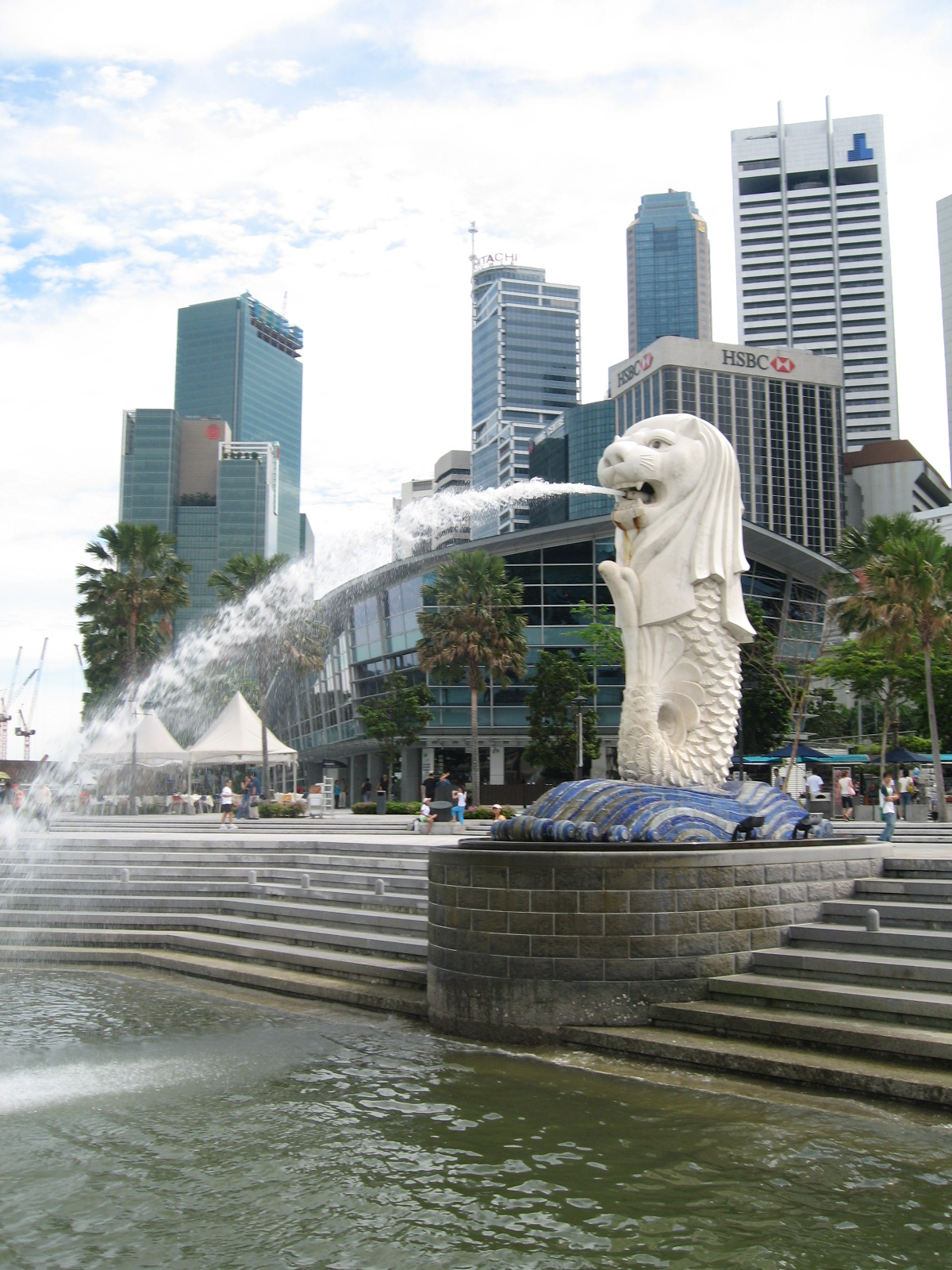 Merlion.